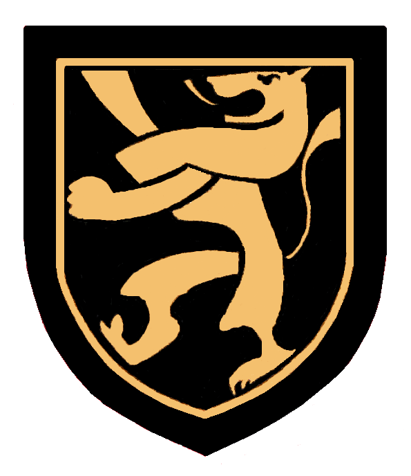 Emblem of the Belgian national football team, worn between 1948 and 1980